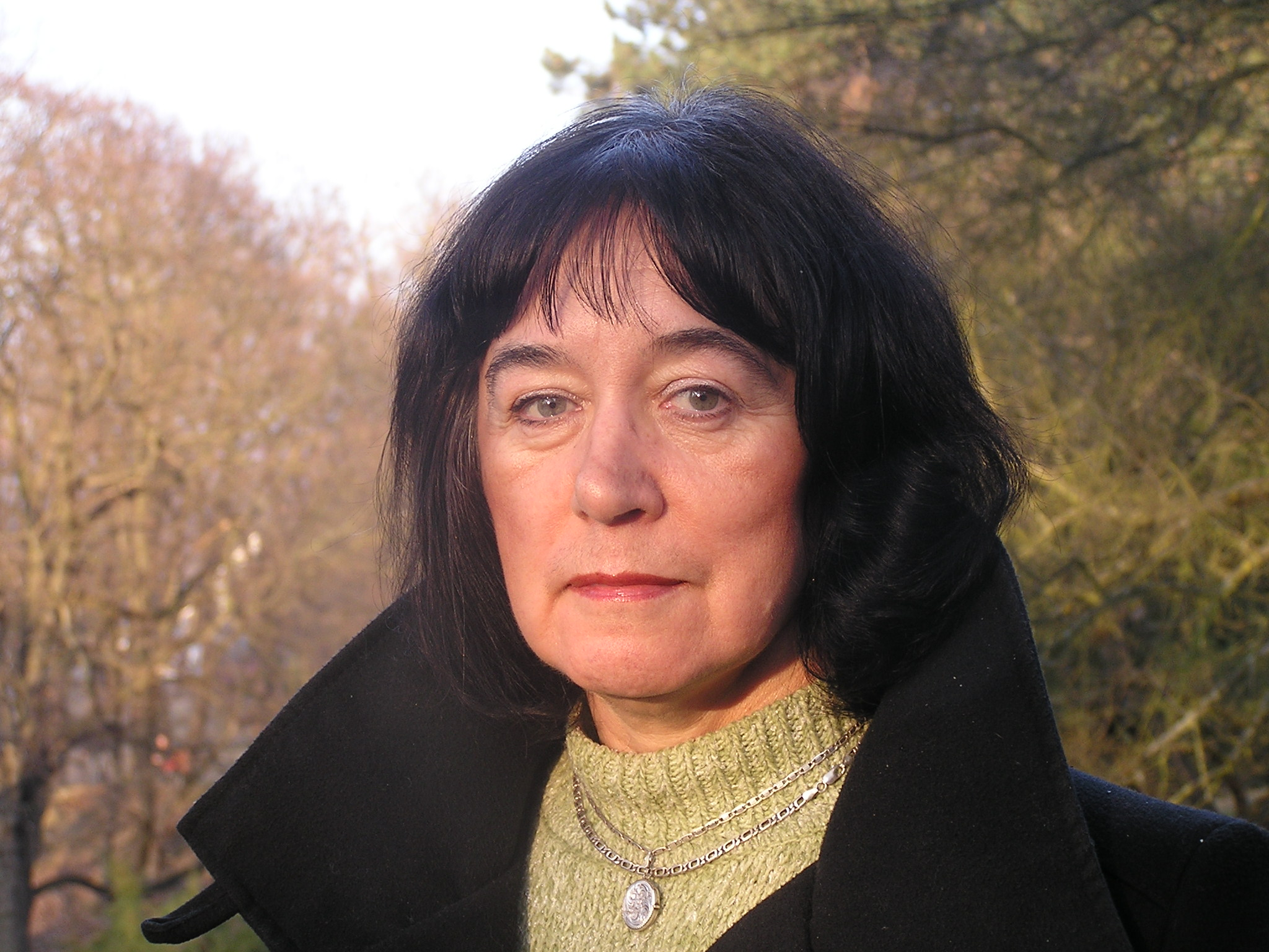 Czech writer and journalist Vera Noskova